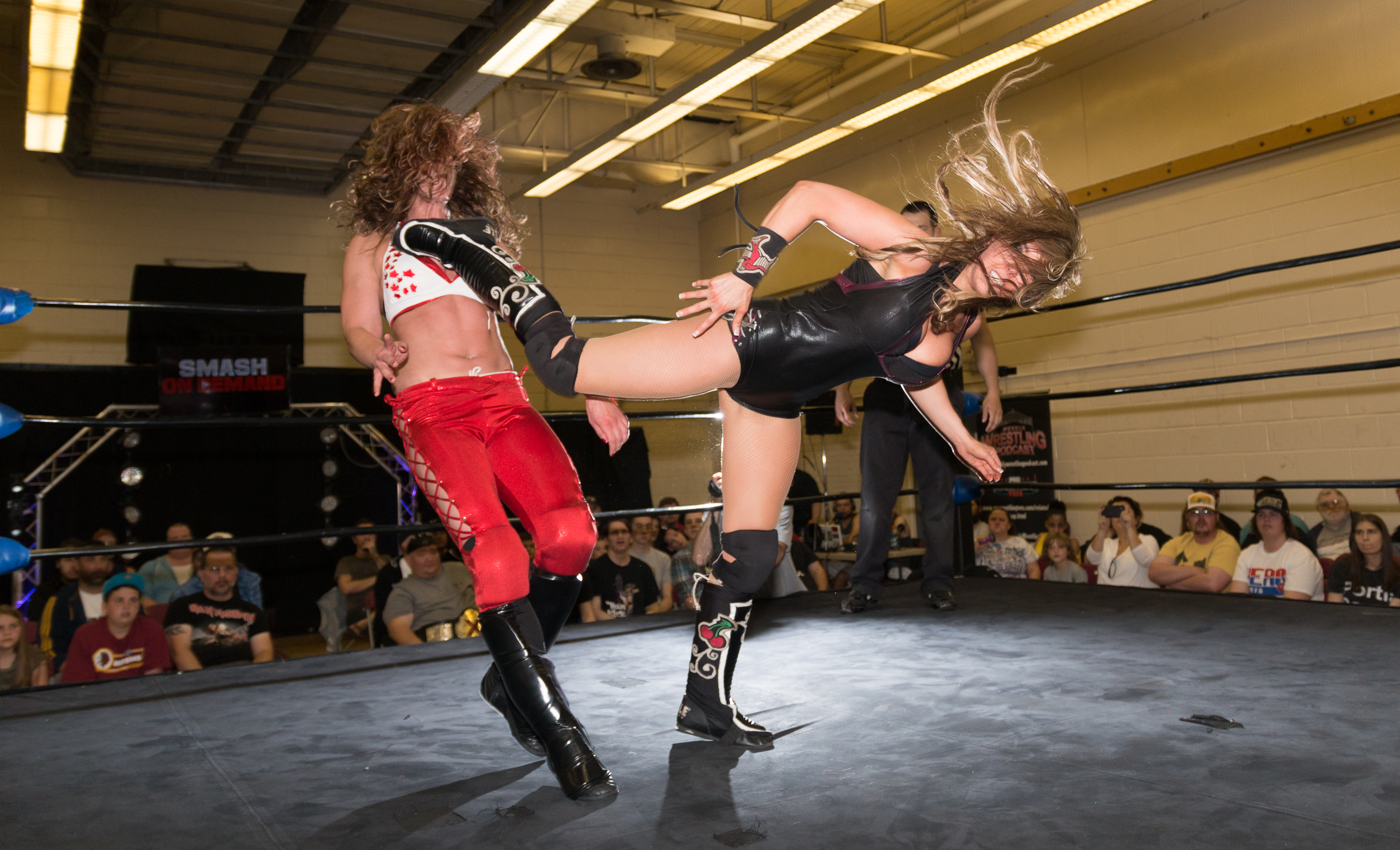 Cherry Bomb (right, in black) delivering a superkick to Danyah at Smash Wrestling's "Give Divas a Chance" show in Toronto, ON